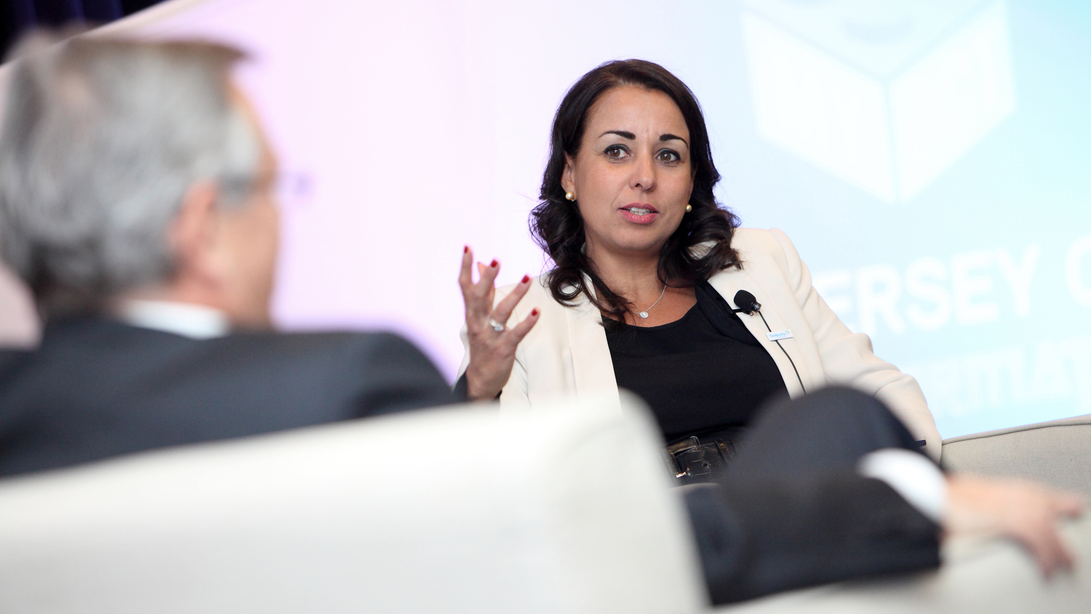 Dr. Ilham Kadri interviewed at a Sealed Air event